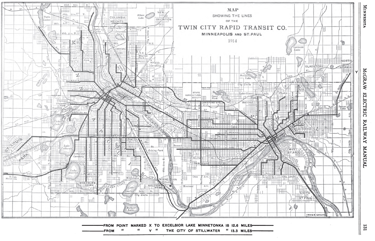 Map of streetcar routes of Twin Cities Rapid Transit, 1914